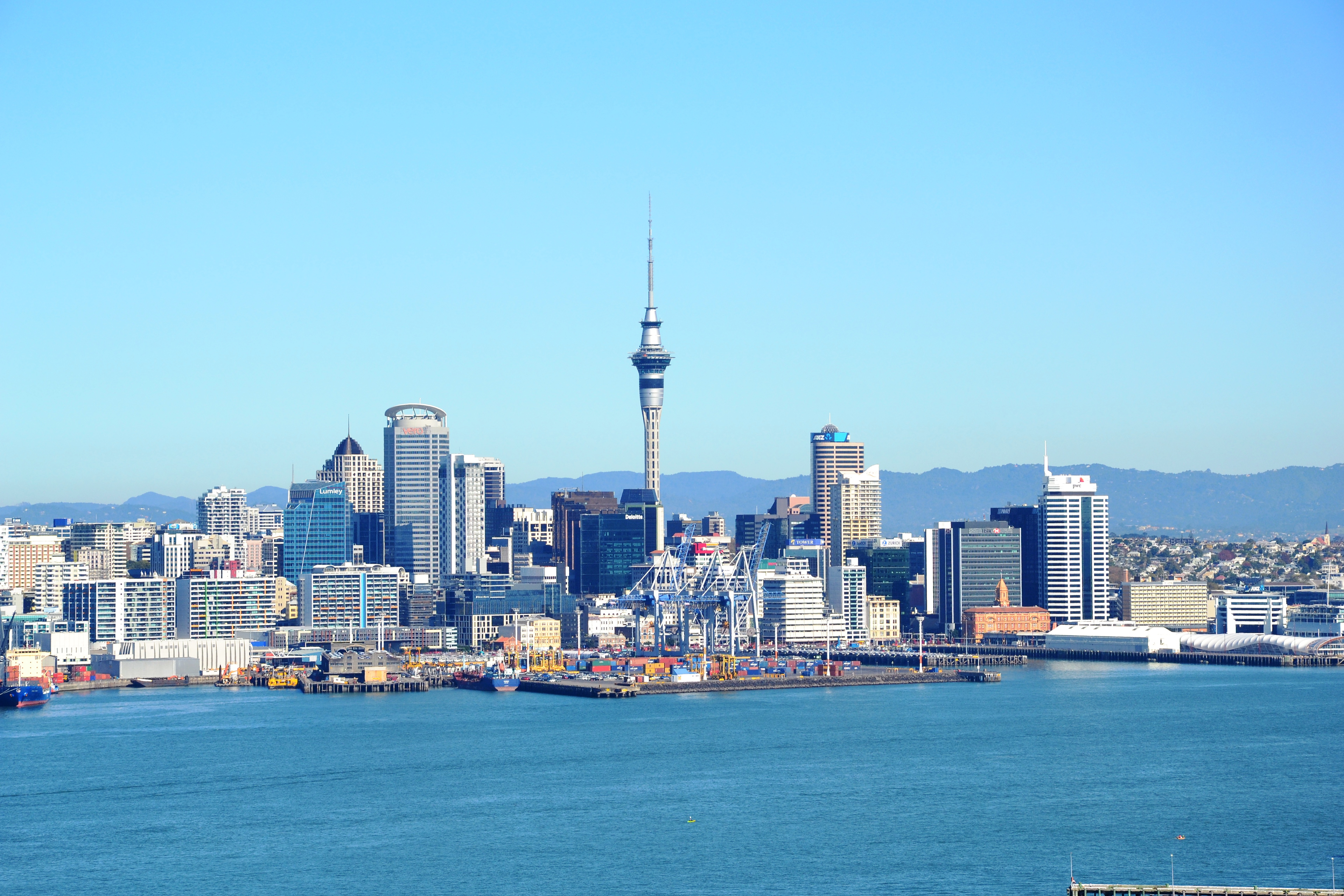 Auckland's skyline from a lookout above Devonport